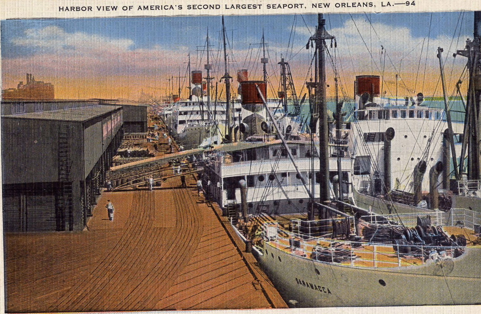 Harbor View of America's Second Largest Seaport, New Orleans, Louisiana. Old postcard view. Text on back: "Many and varied are the harbor scenes replete with interest for the visitor of New Orleans. This view shows part of the great white banana fleet of the United Fruit Company at wharf that is typical of the nine miles of New Orleans river frontage. These boats do much to make New Orleans the world's greatrest banana port, with an annual importation of approximately 20,000,000 bunches."